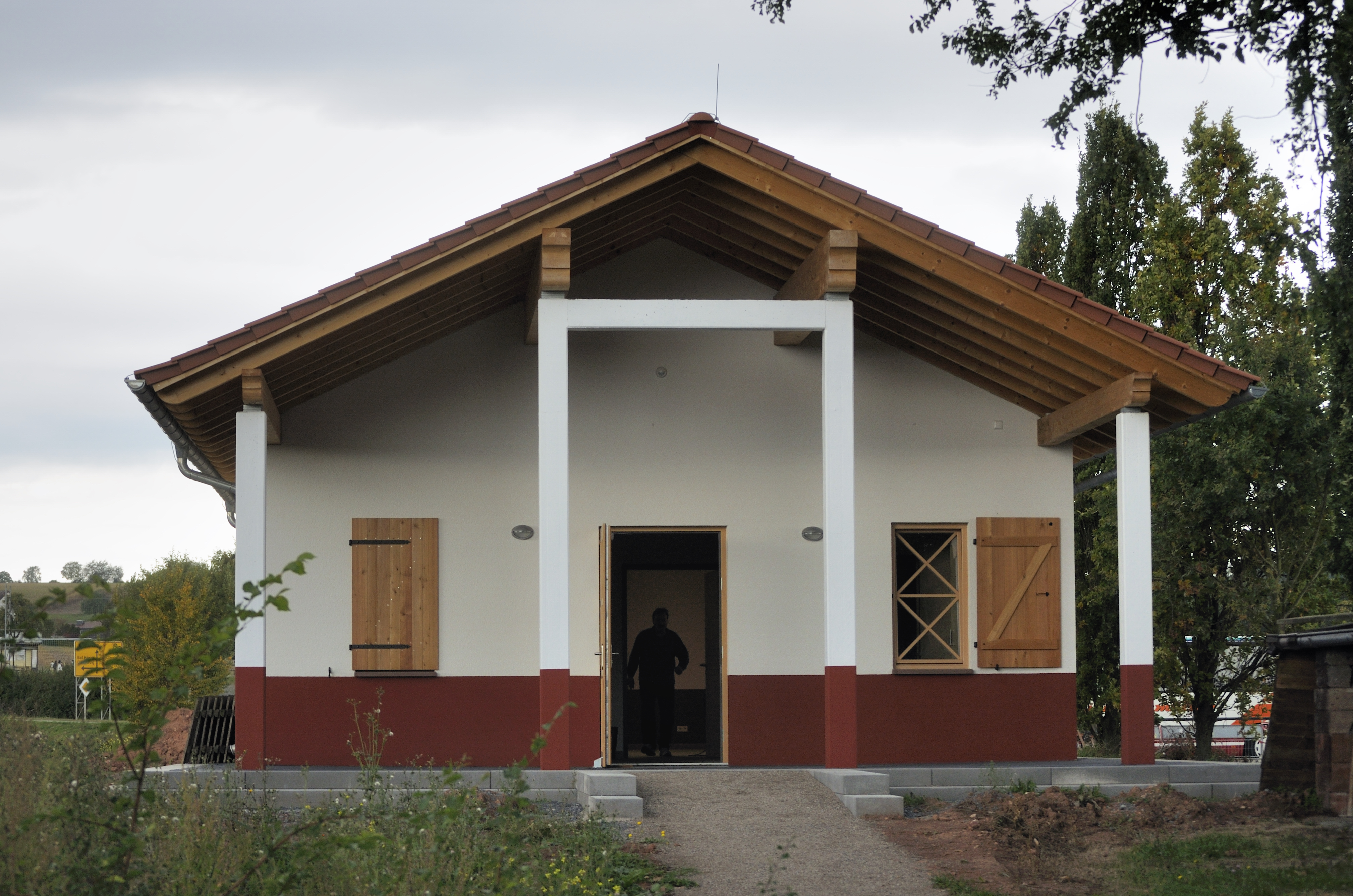 Roman villa rustica Haselburg.